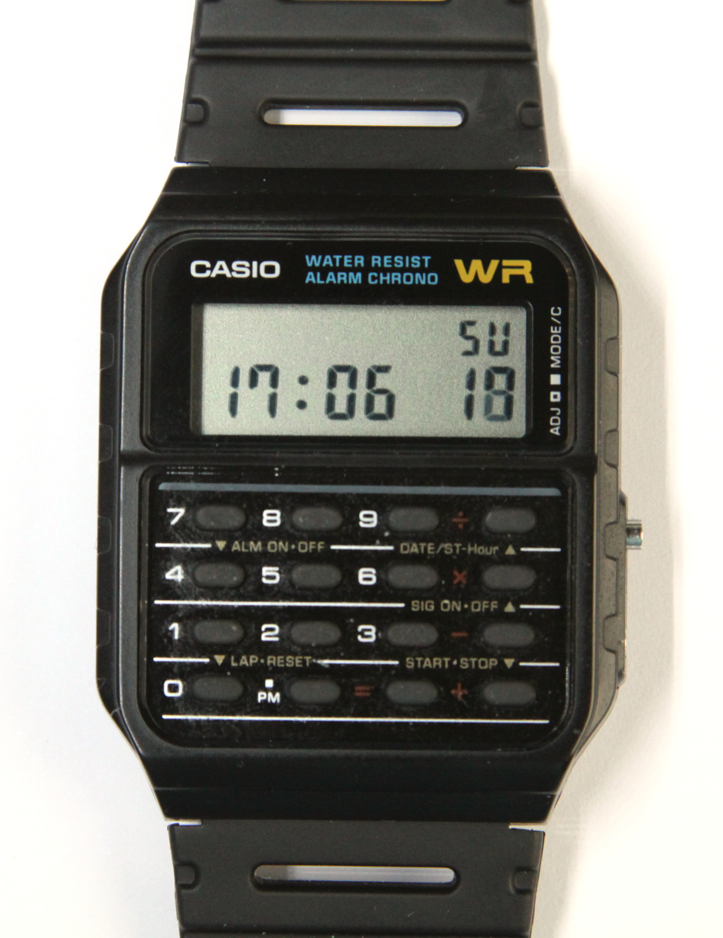 Casio CA-53W (aka the Back to the Future watch worn by Marty McFly in the movies), modern reissue